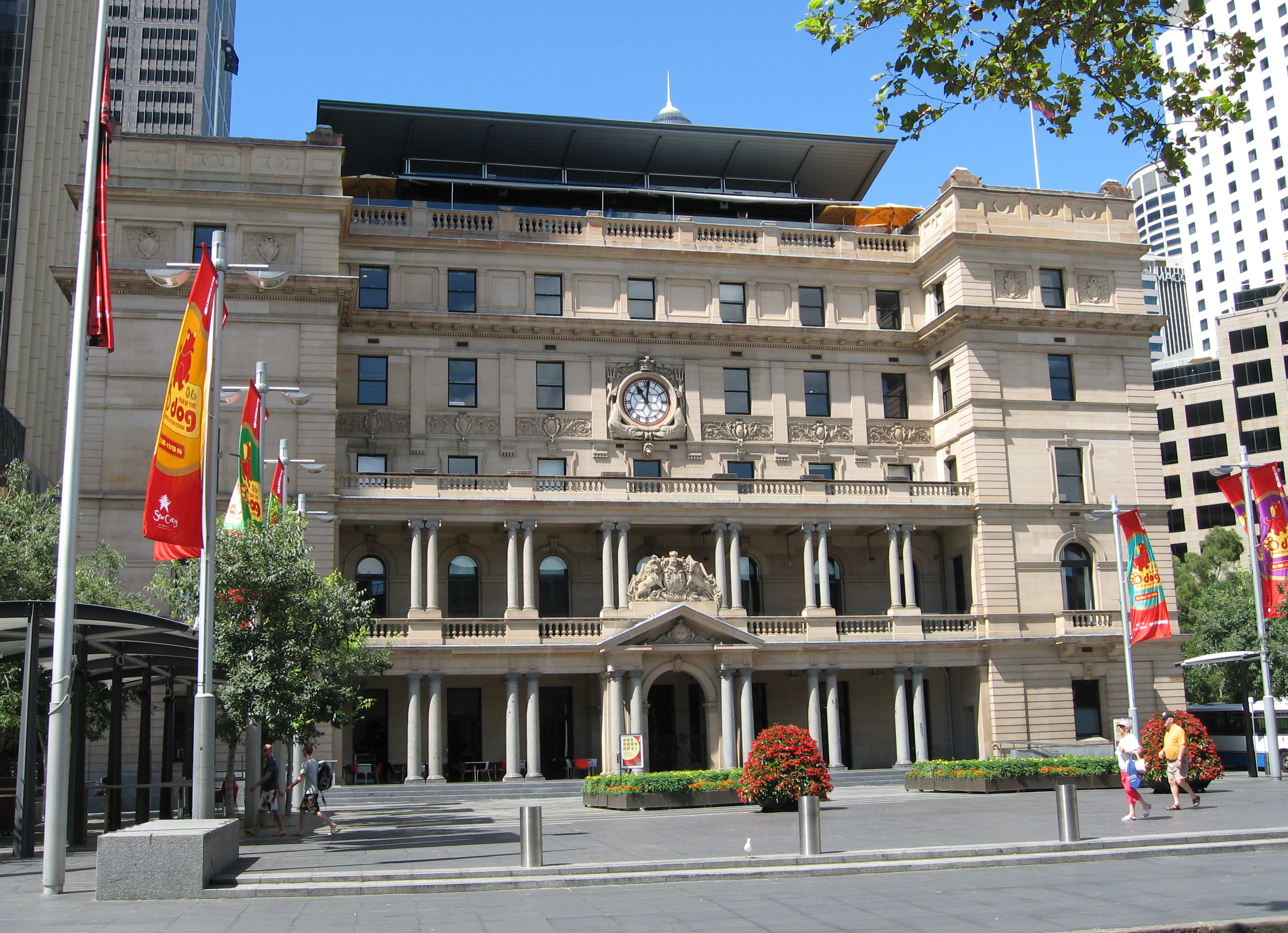 Customs House, Circular Quay, Sydney, Australia.